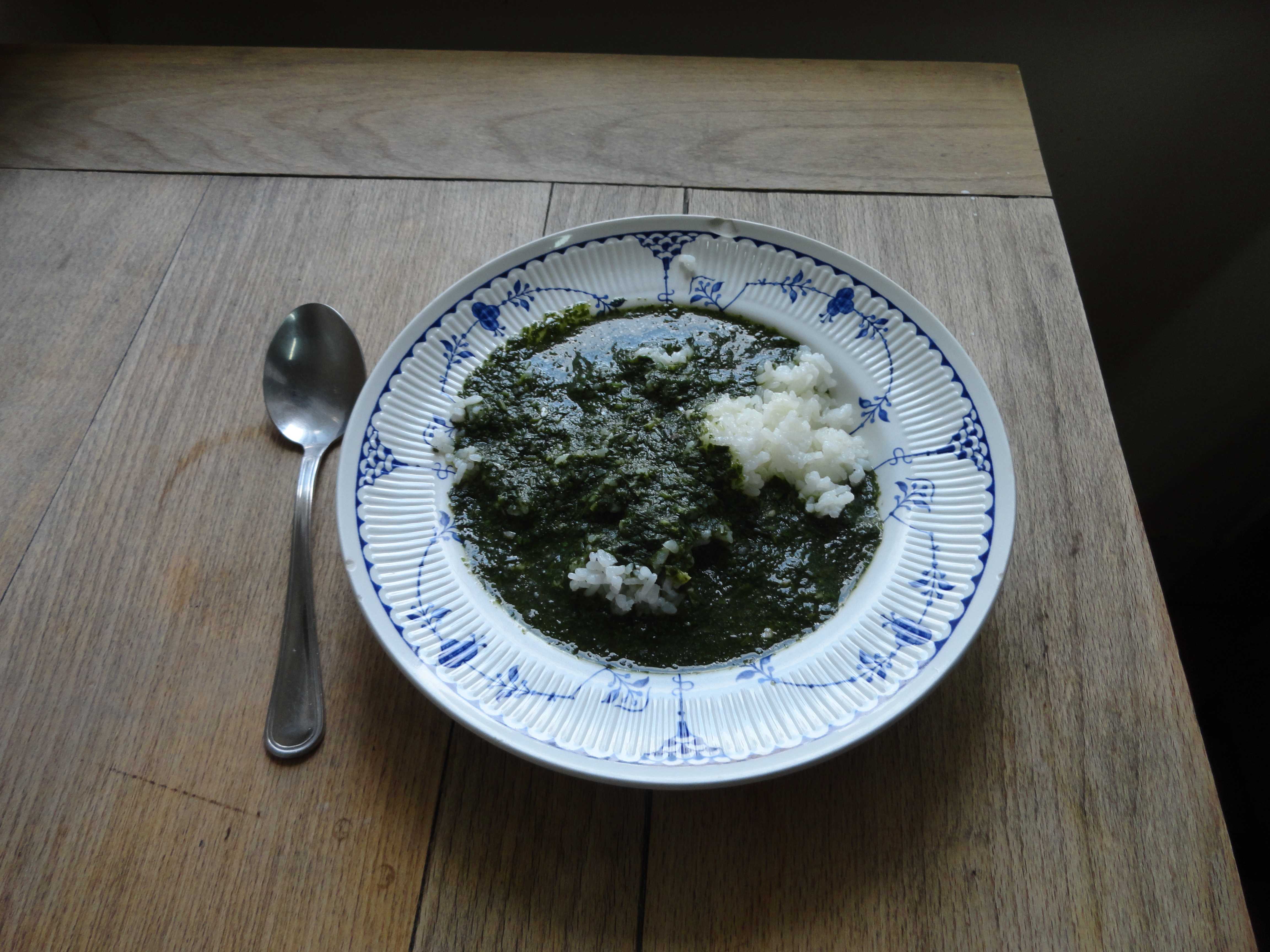 An image of Egyptian Molokheya with rice